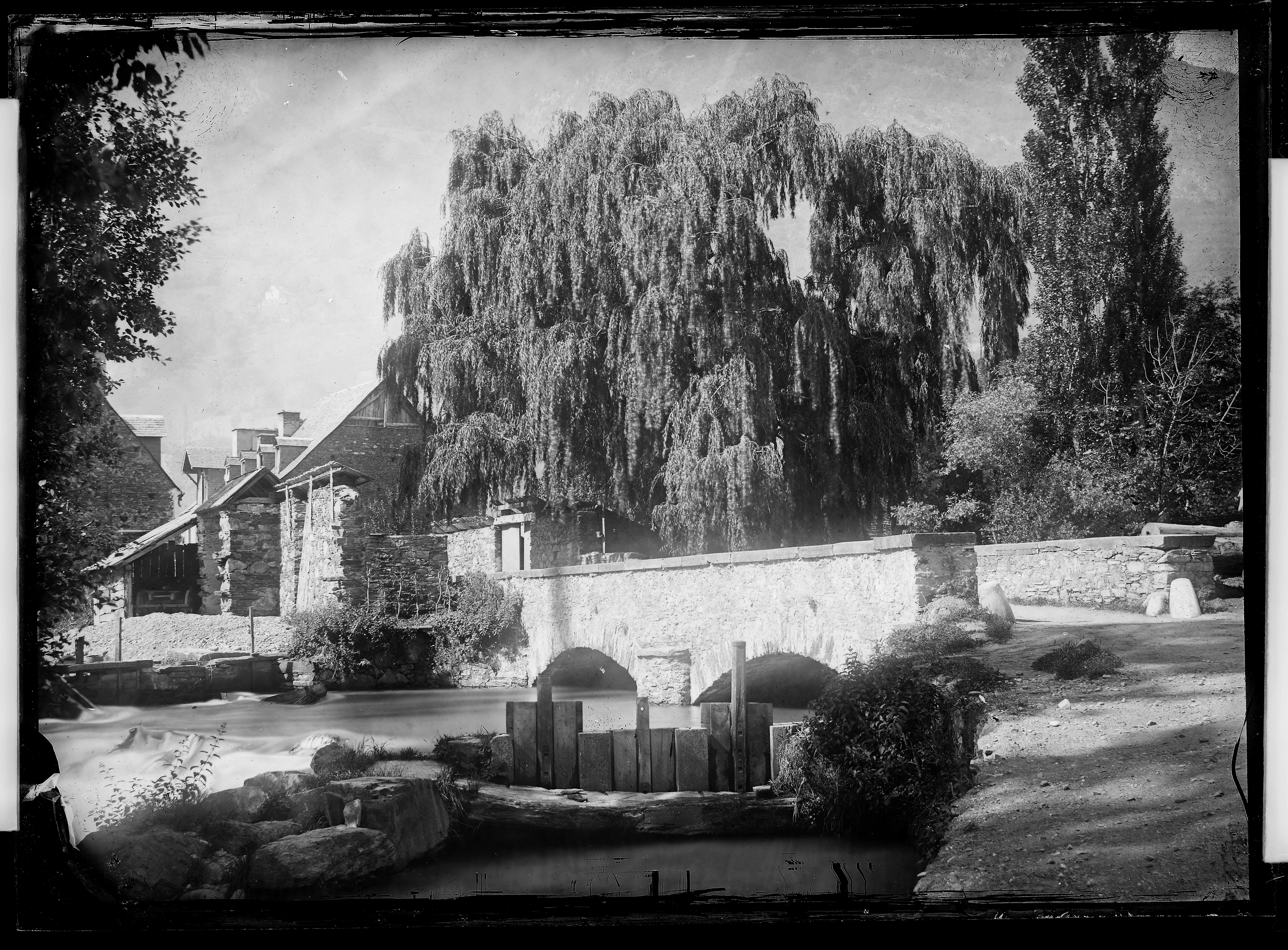 No inscription or authors mention. Saint-Béat .